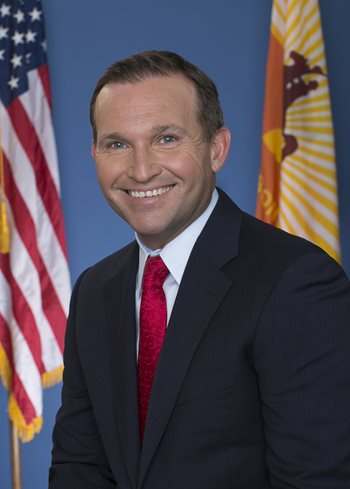 Mayor Lenny Curry